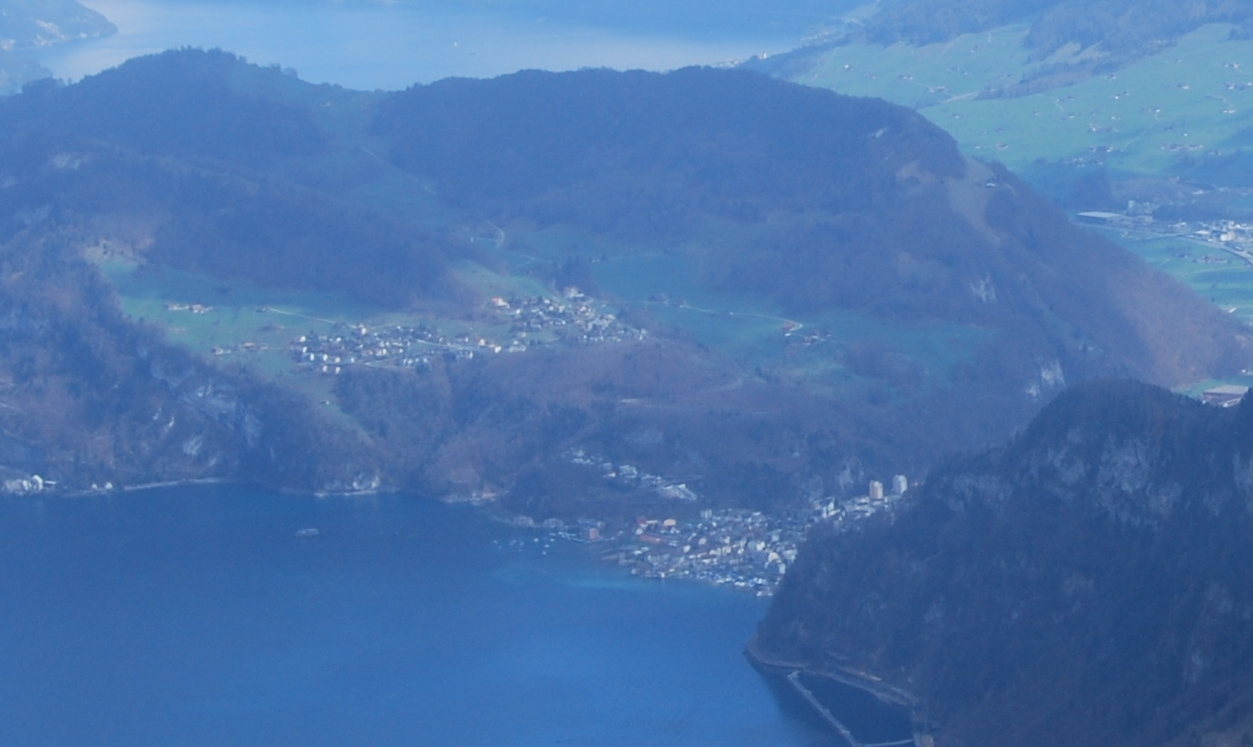 View to the Lake of Lucerne and Stansstad.